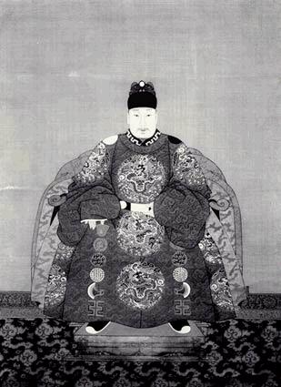 Court portrait of Ming Dynasty China's Wanli Emperor (r. 1572–1620).